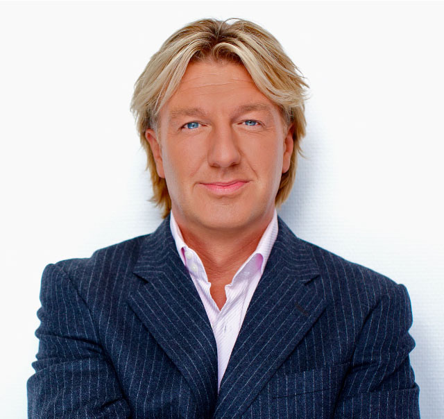 Michael Pilarczyk